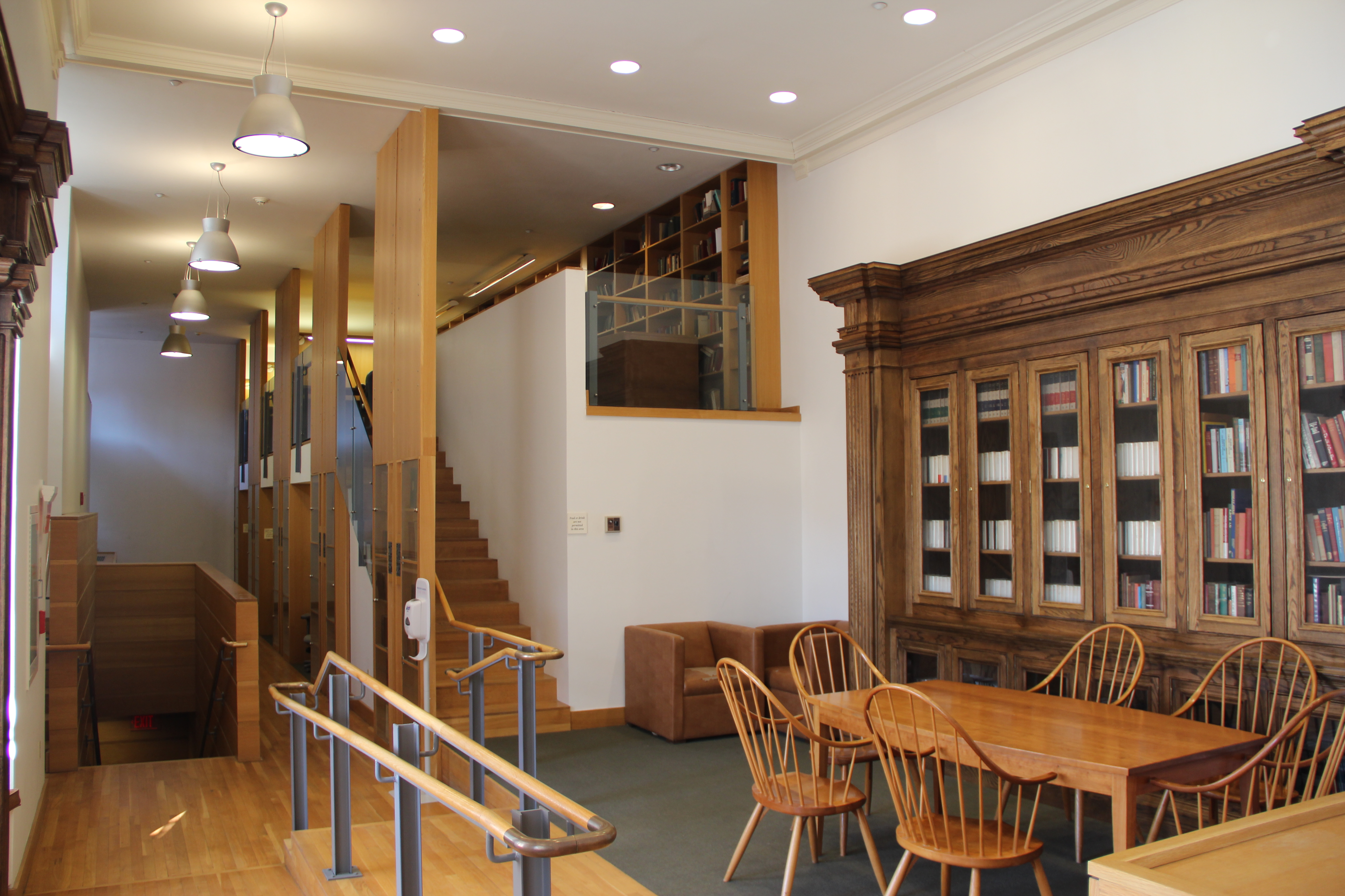 First floor of Pierson College library after 2005 renovation, Yale University, New Haven, CT